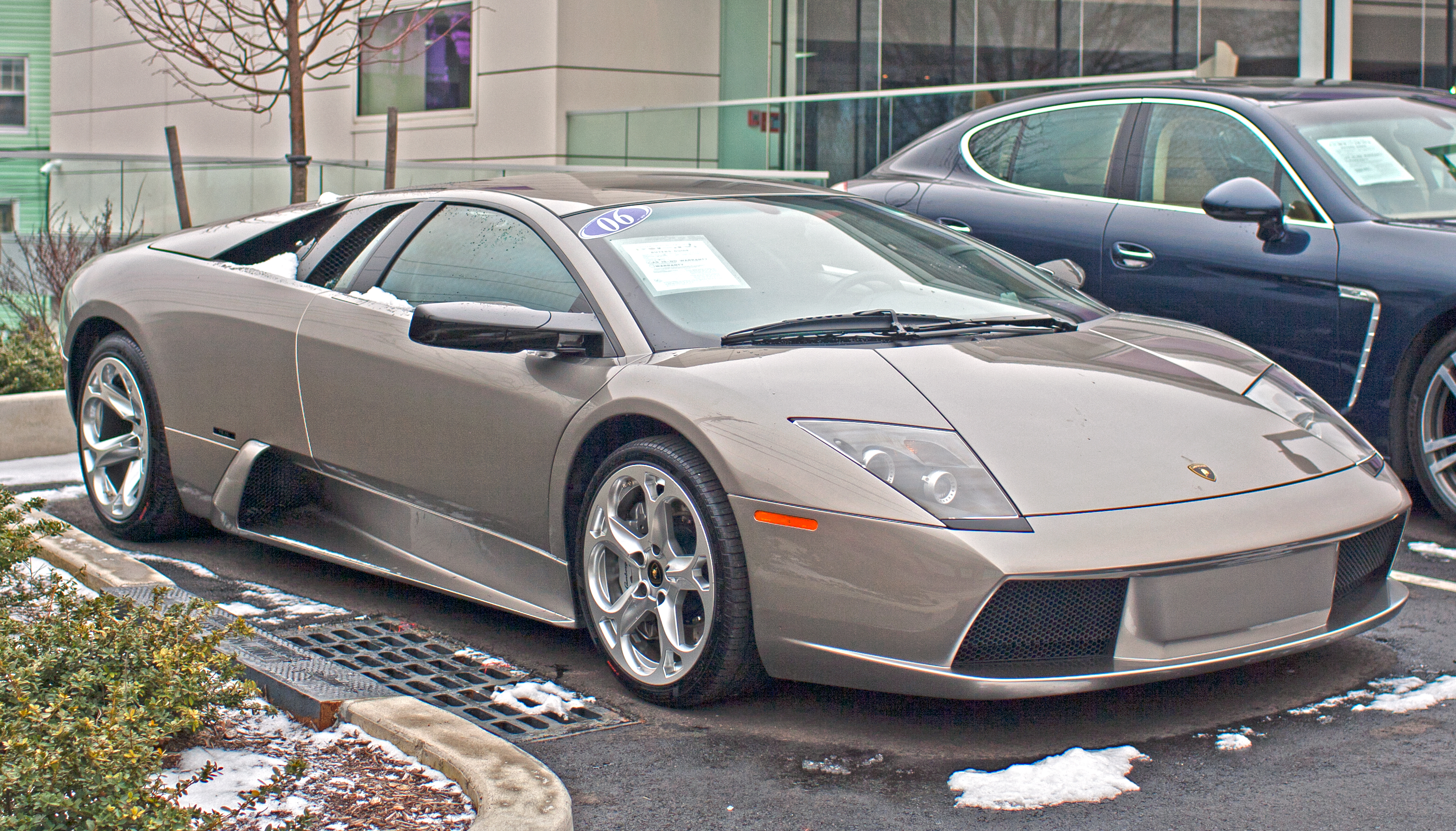 A 2006 Murciélago at a dealership in Greenwich, CT.